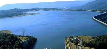 Tennessee Valley Authority image of Raccoon Mountain Pumped Storage Plant, located in southeast Tennessee on a site overlooking the Tennessee River near Chattanooga. From